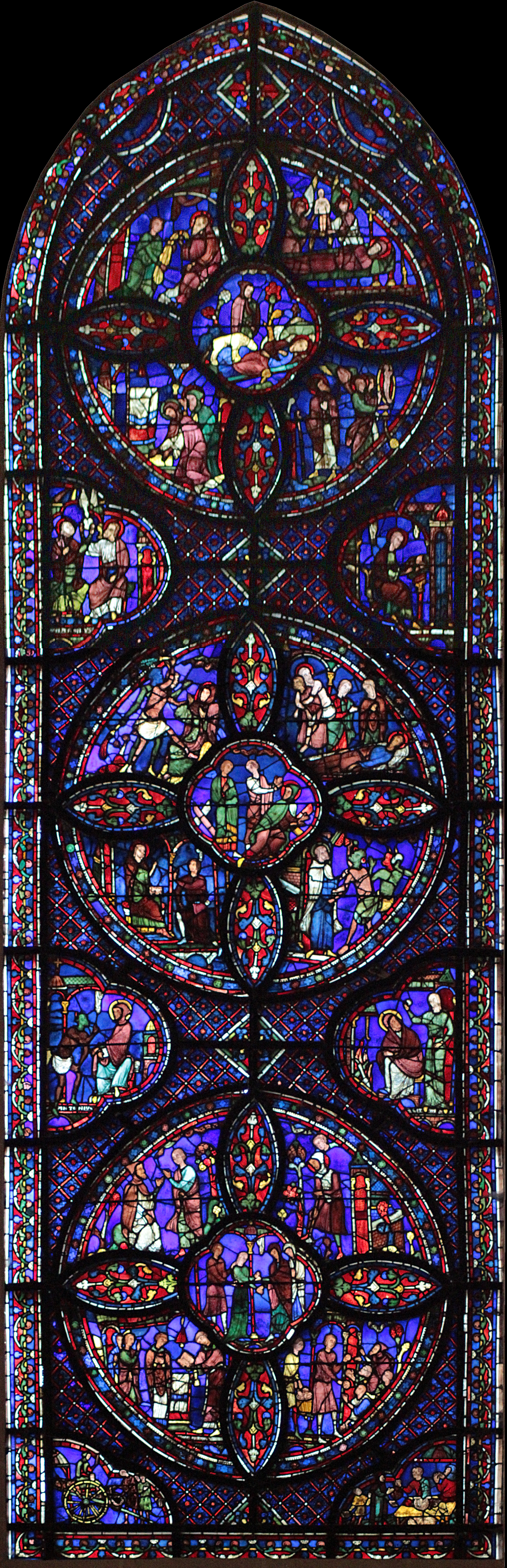 Mosaic of File:Vitrail Chartres-030-d a.jpg and File:Vitrail Chartres-030-d b.jpg - perspective correction and color balance adjustment, sharpness enhanced.